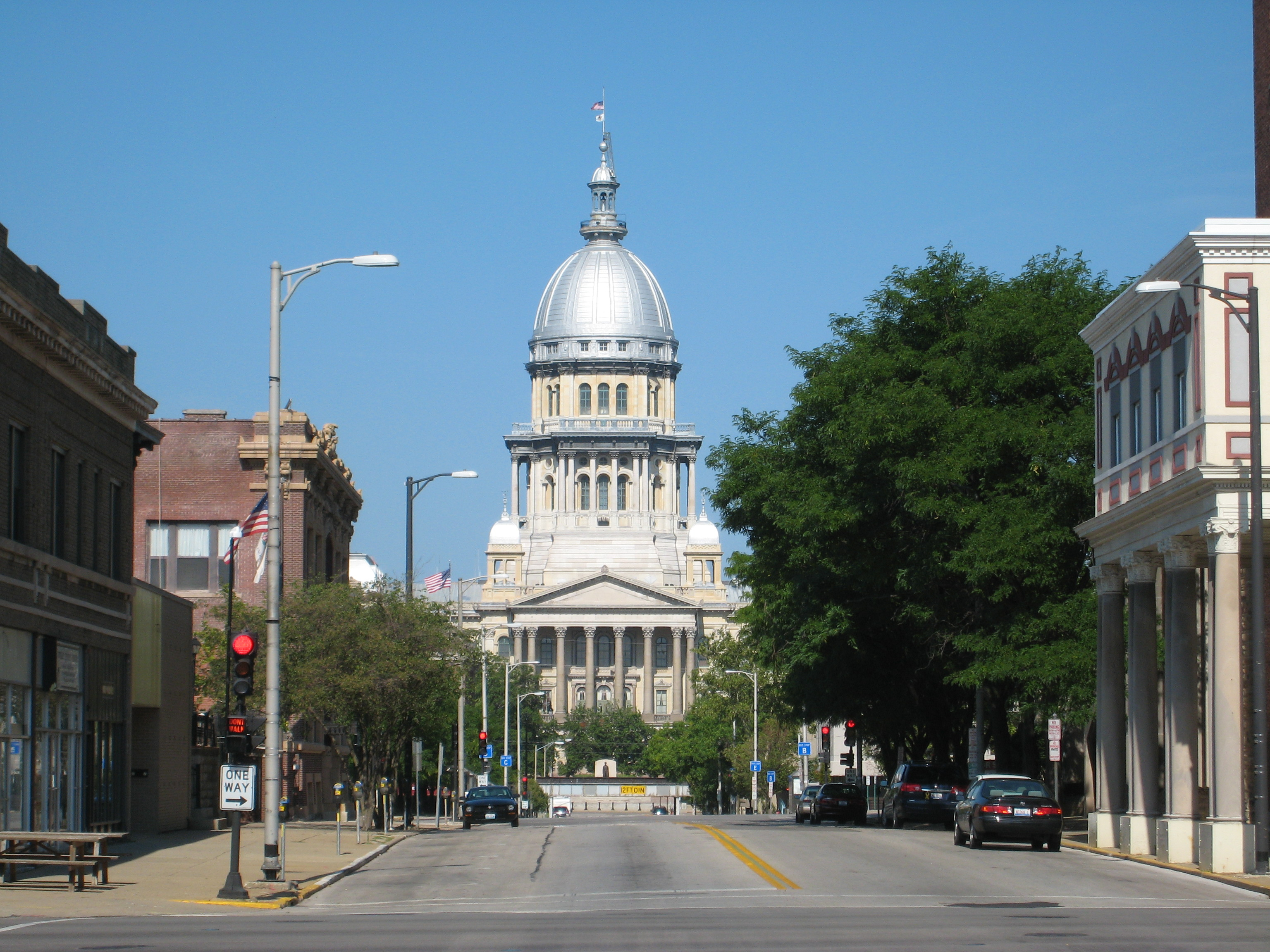 A photograph of the Springfield Capitol Building. Photograph taken by W. Wadas.